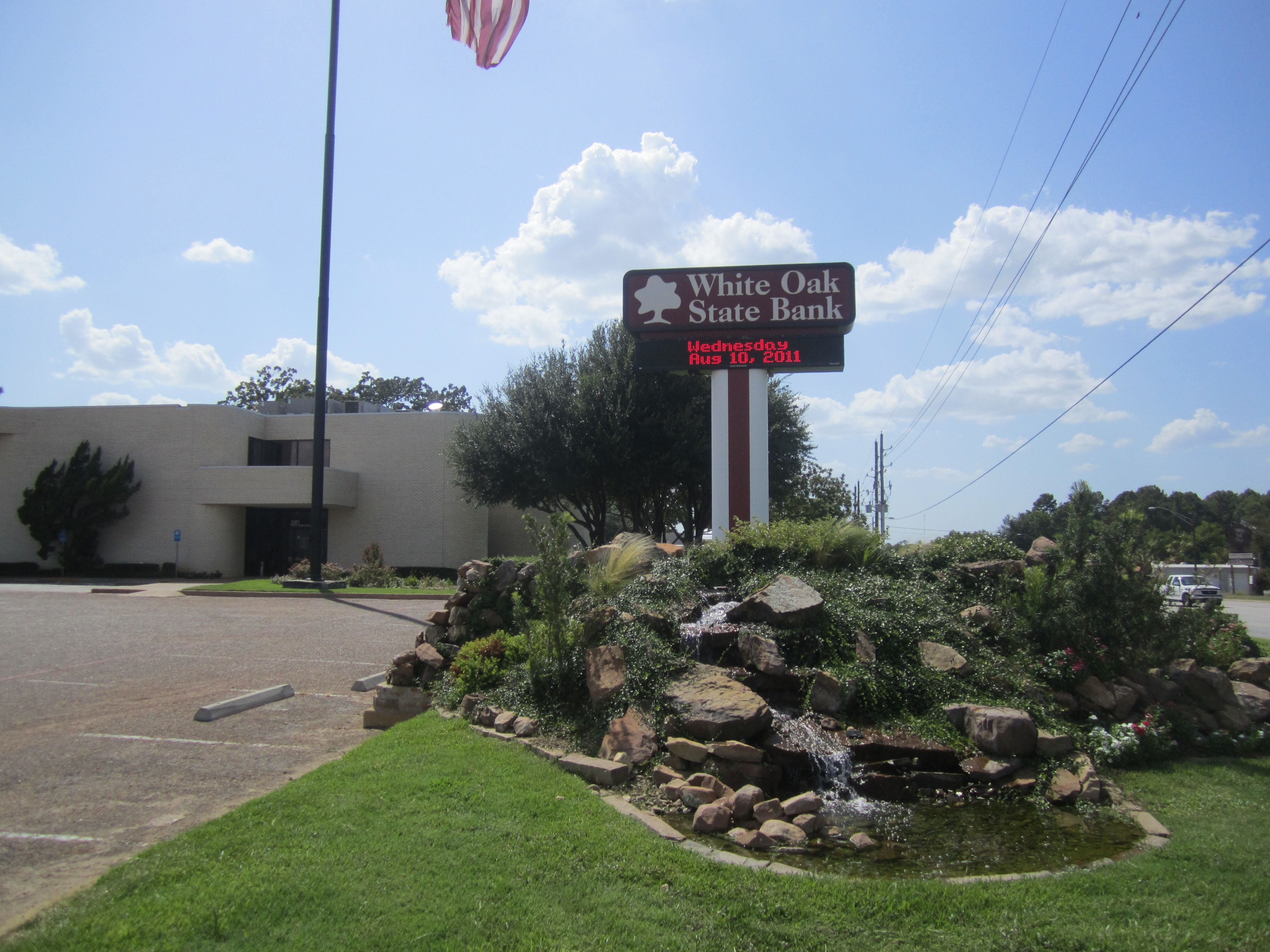 I took photo of White Oak State Bank with Canon camera in White Oak, TX.